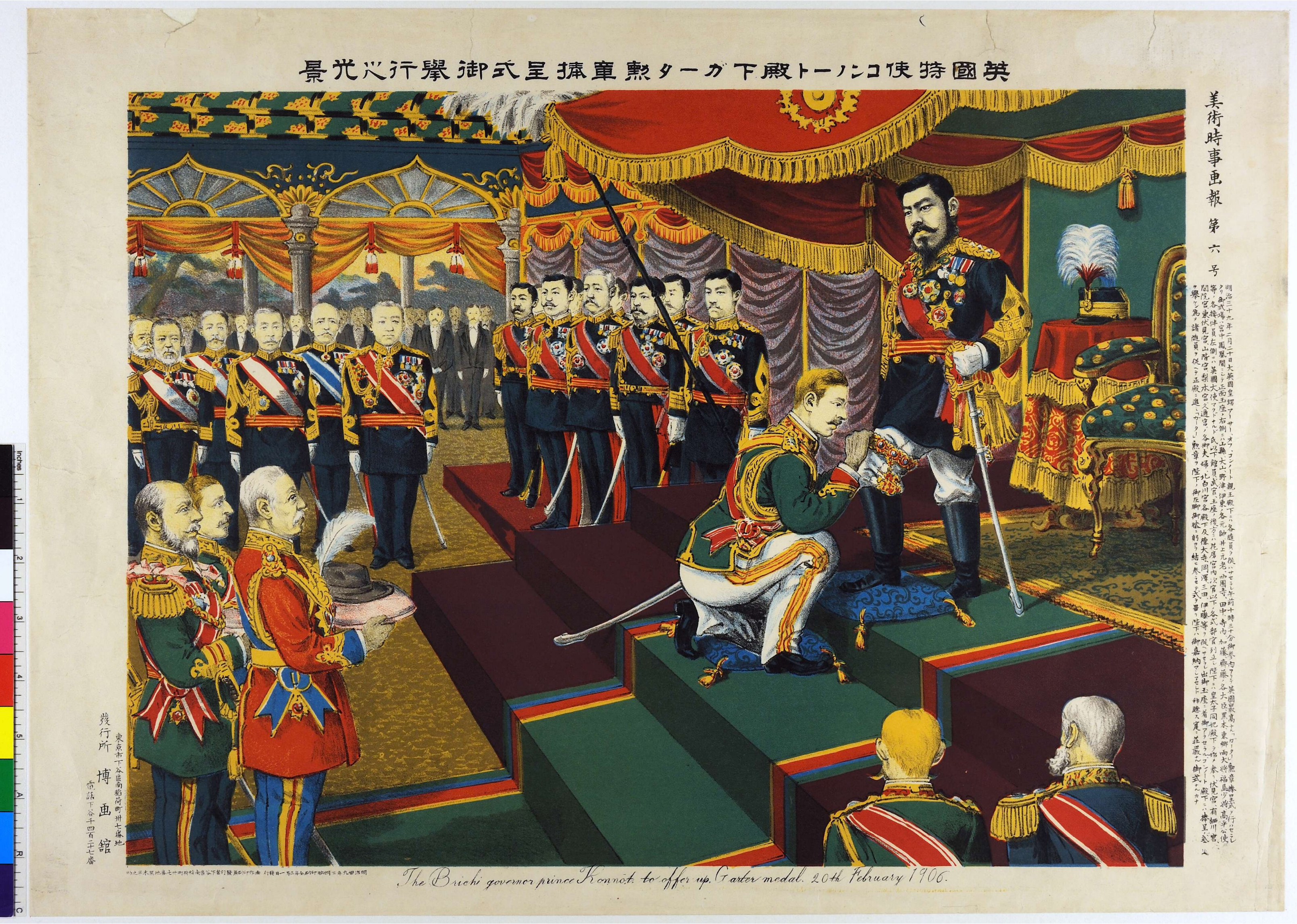 Prince Arthur of Connaught Offering the Order of the Garter to the Emperor Meiji, on behalf of King Edward VII, lithograph by unknown Japanese artist, 1906, British Museum